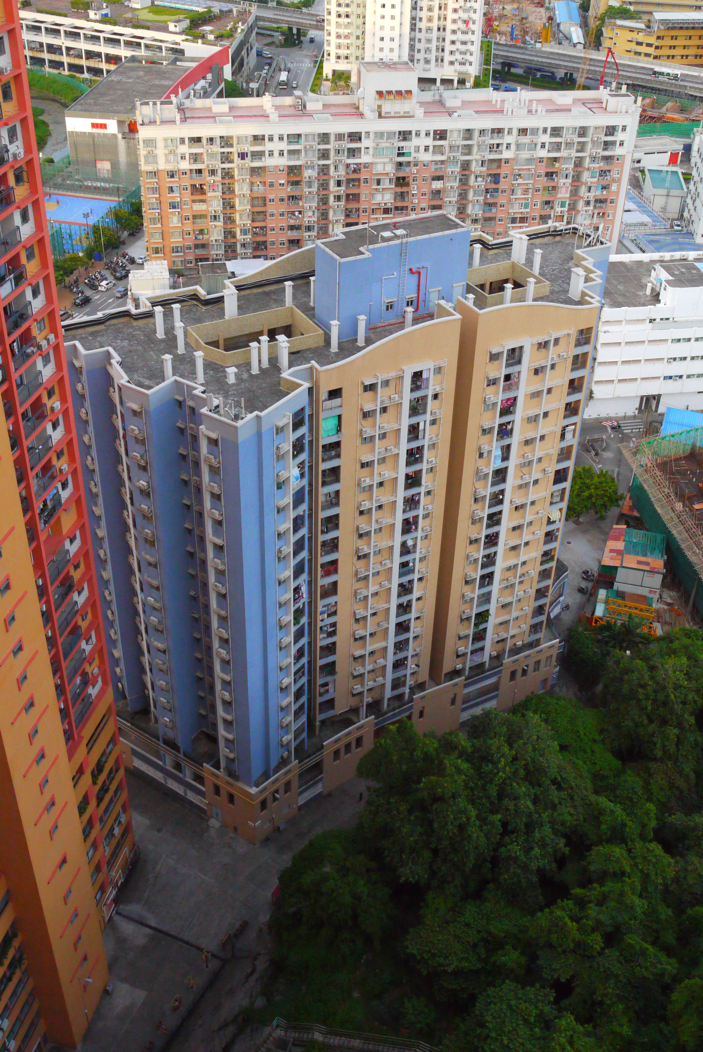 Cheng Chun 1